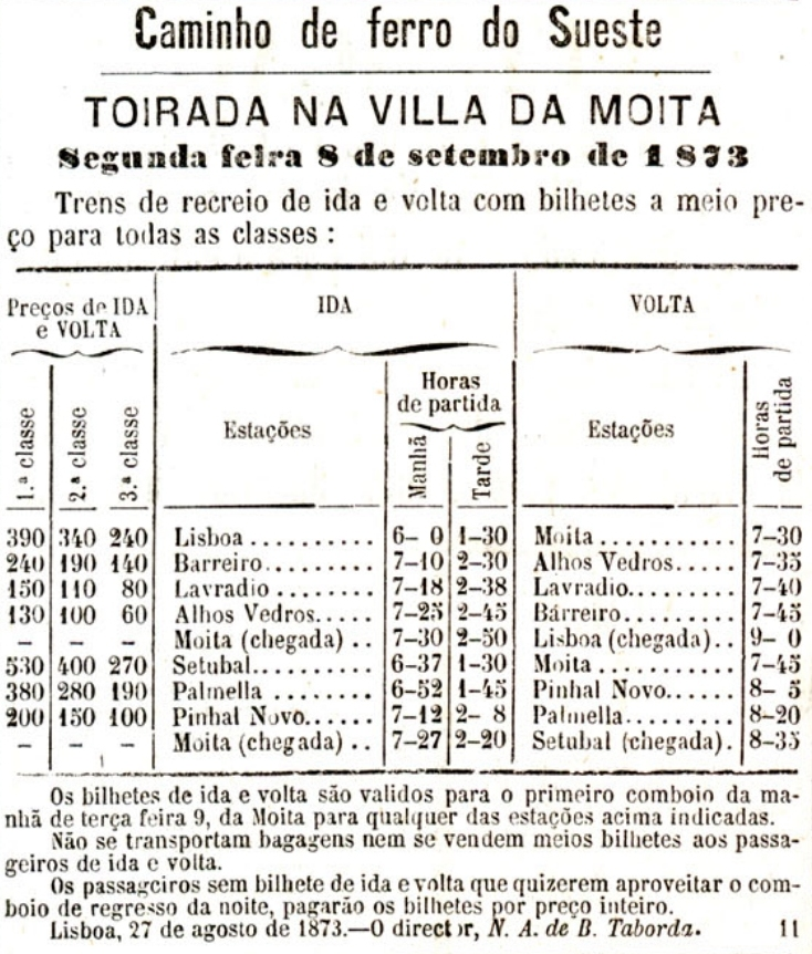 Advertisement of the Caminho de Ferro do Sueste (Portuguese Southeastern Railway) for special trains at reduced prices from Lisbon (boats to Barreiro) and Setúbal to Moita, for a bullfighting event. This image was published on the Diario Illustrado newspaper No. 394, of 4th September 1873, and scanned by the Biblioteca Nacional de Portugal.